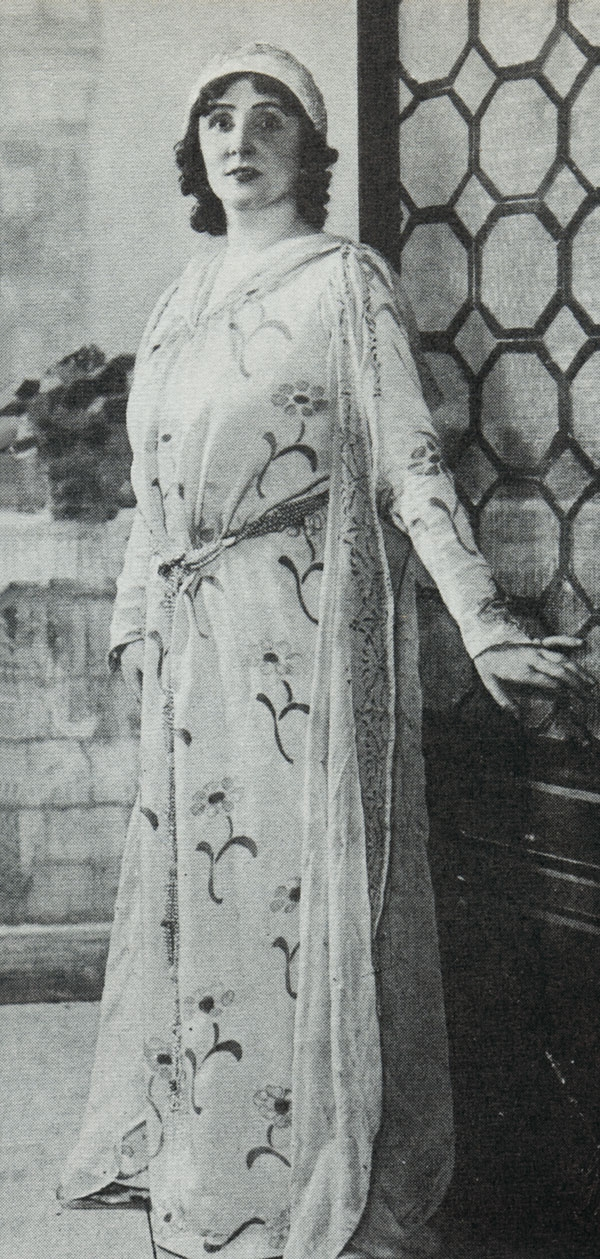 The late soprano Florence Easton as Lauretta in Giacomo Puccini's Gianni Schicchi. Photo from December 14, 1918.